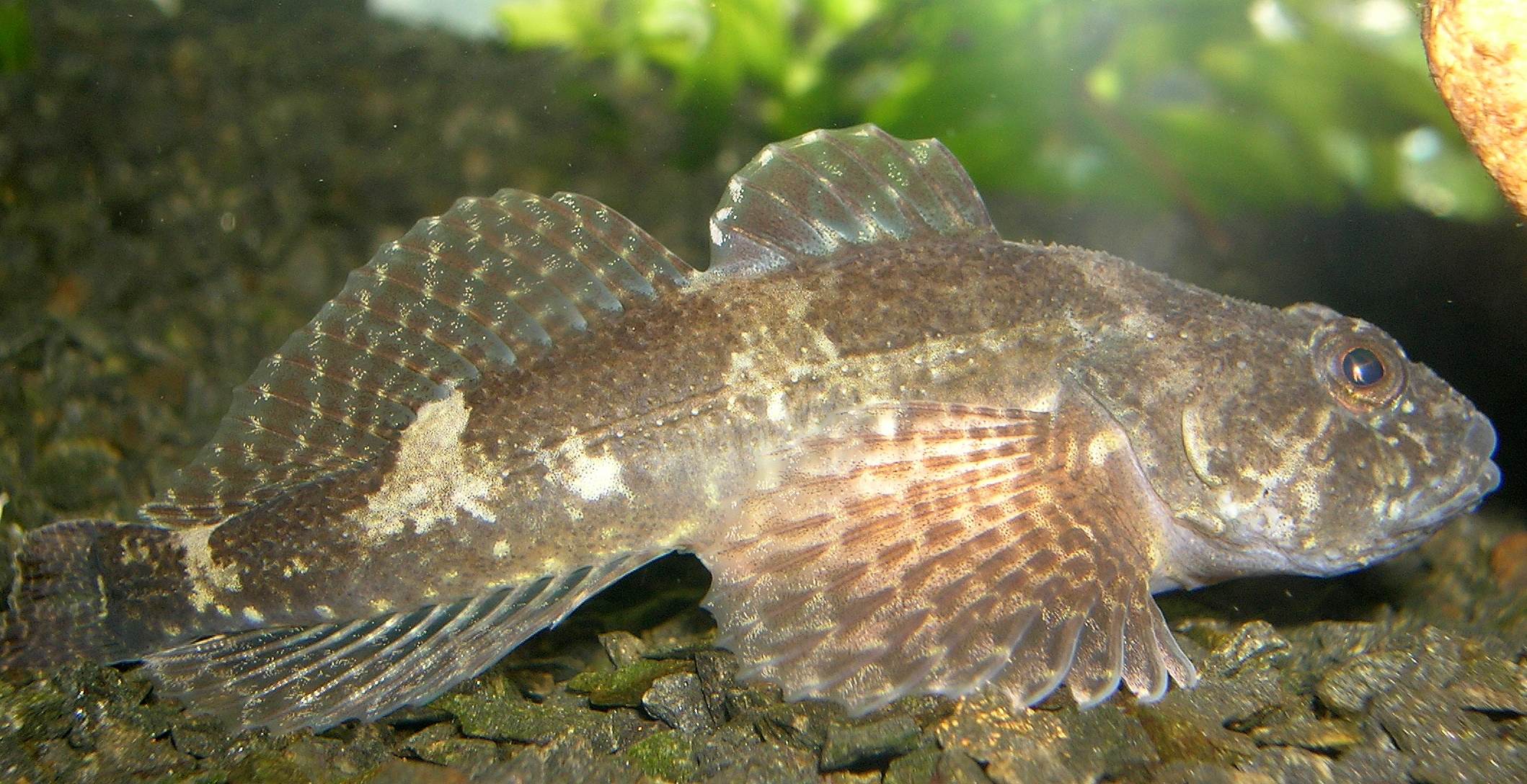 European bullhead, spreading its fins. From the Lower Rhine system, Valleikanaal Utrecht the Netherlands, so probably Cottus perifretum (spiny scales along the flank can be seen)n